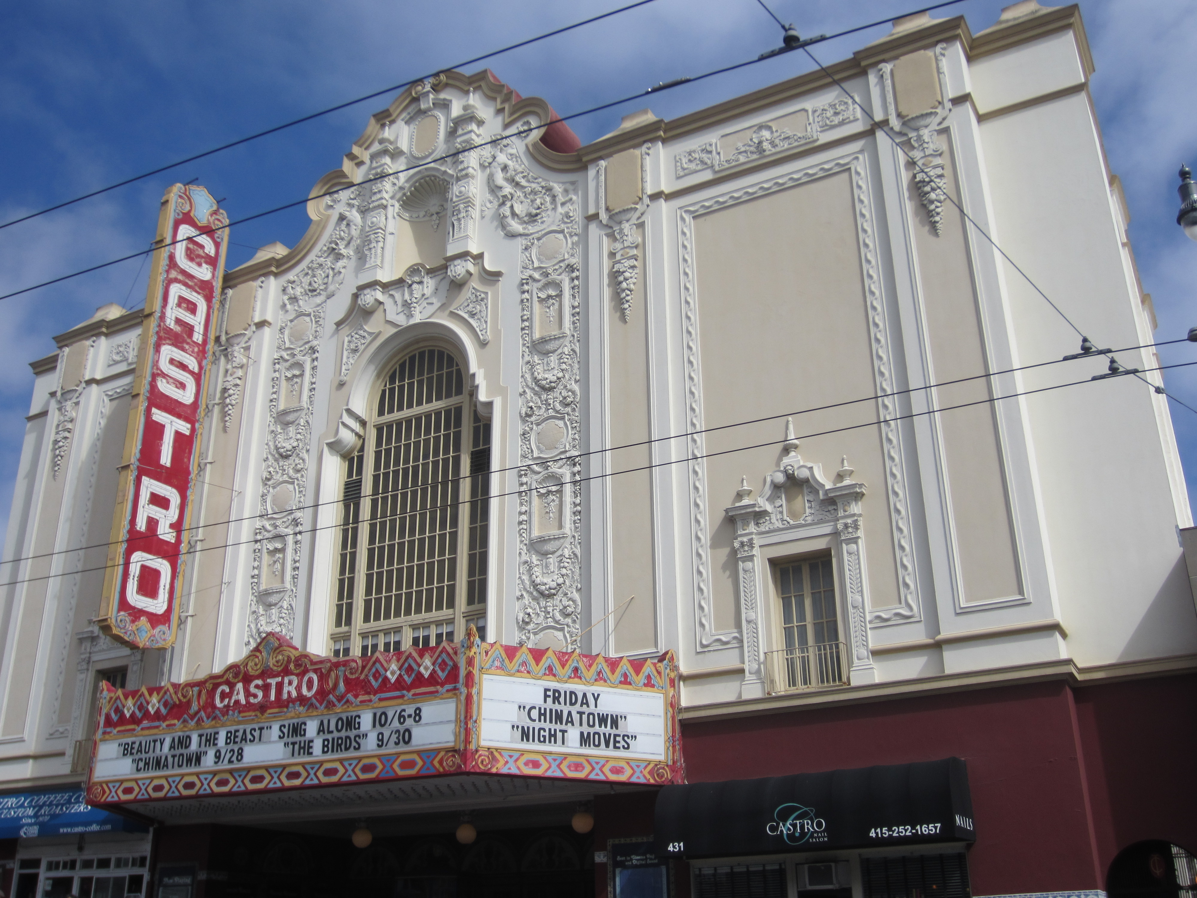 San Francisco (2018)